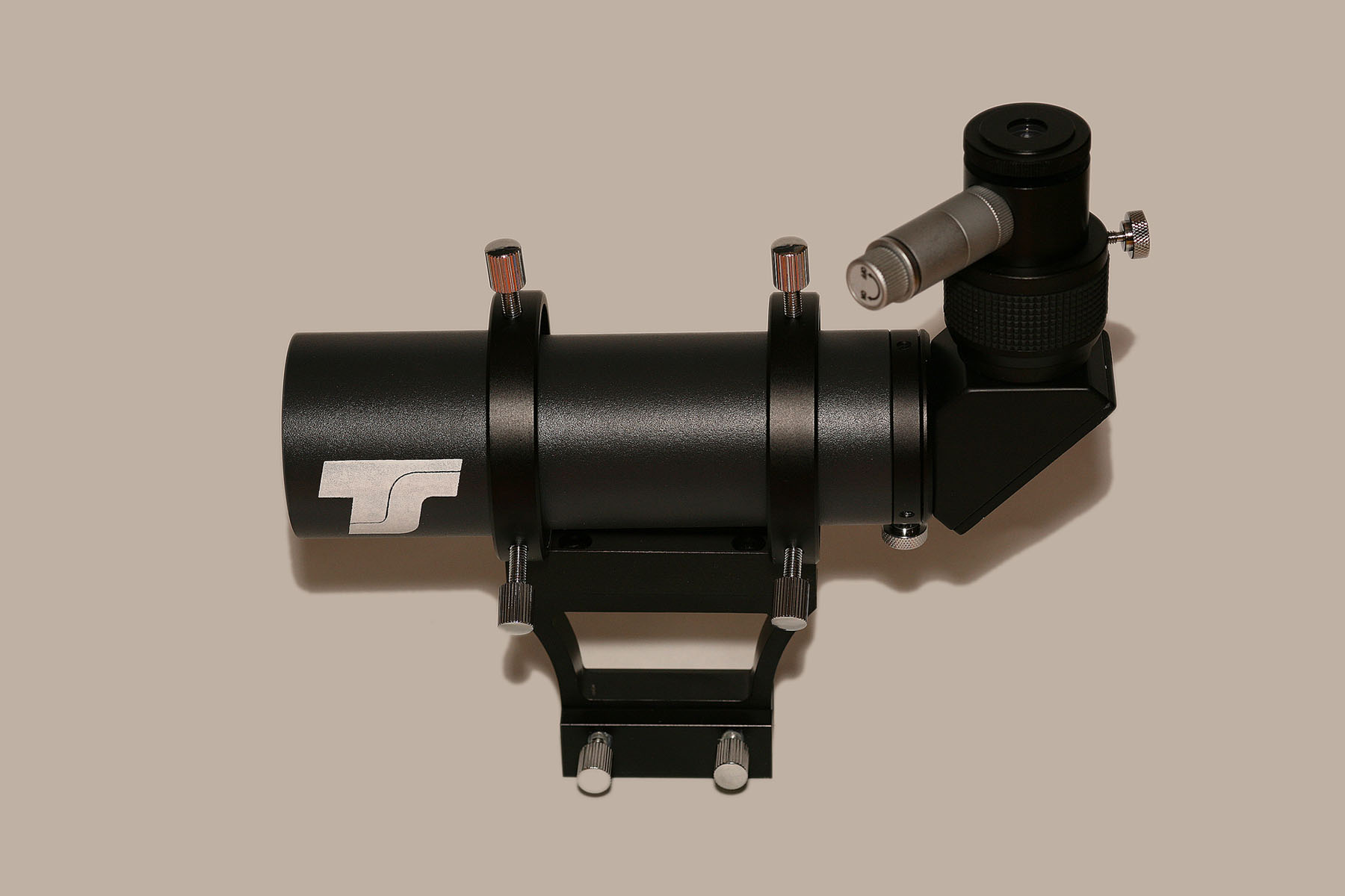 Finderscope 8x50